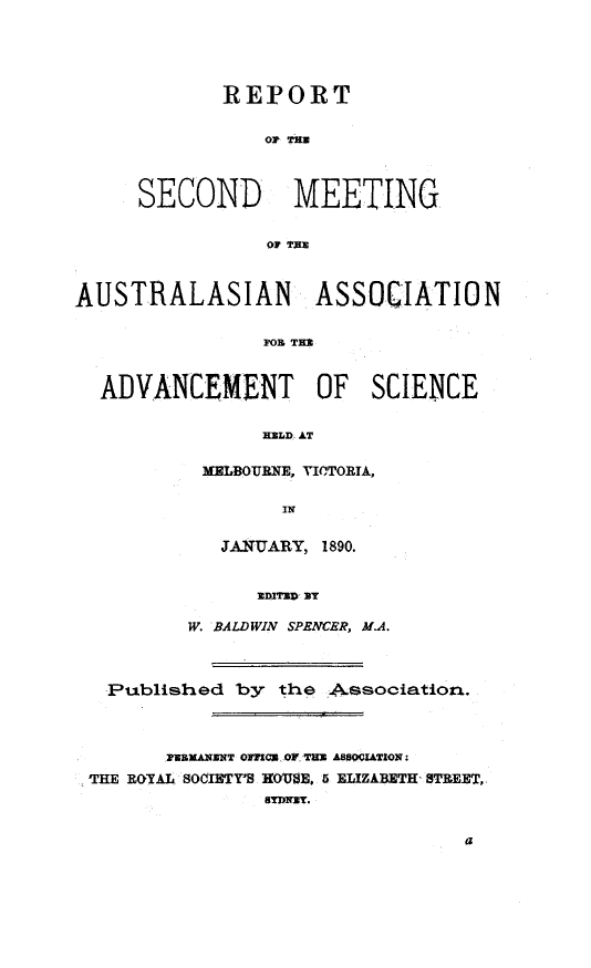 This is an image of the frontispiece of Report of the Second Meeting of the Australasian Association for the Advancement of Science.